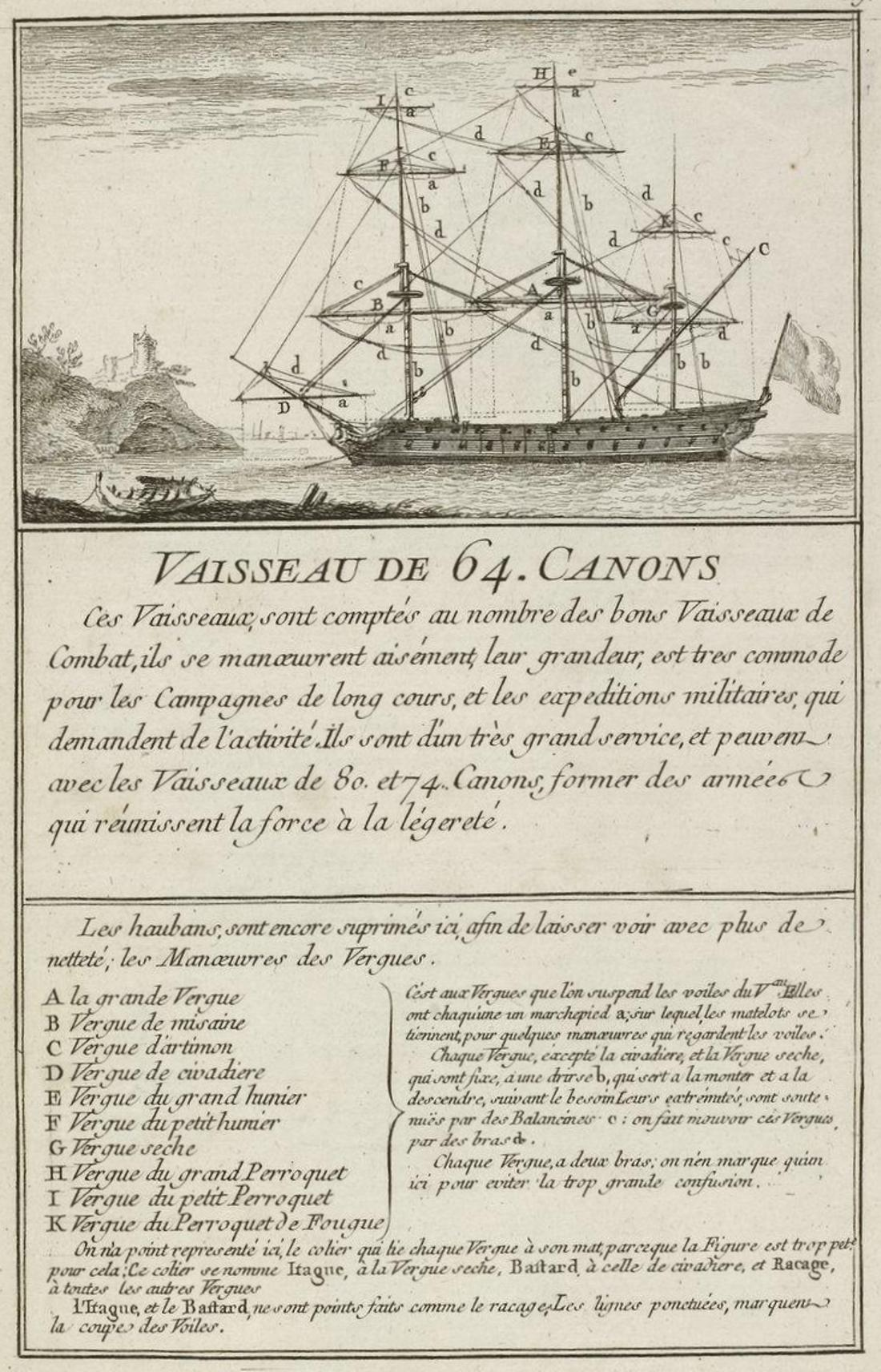 Ship of 64 guns. Text and drawings made ​​by Nicolas Ozanne, 1764.